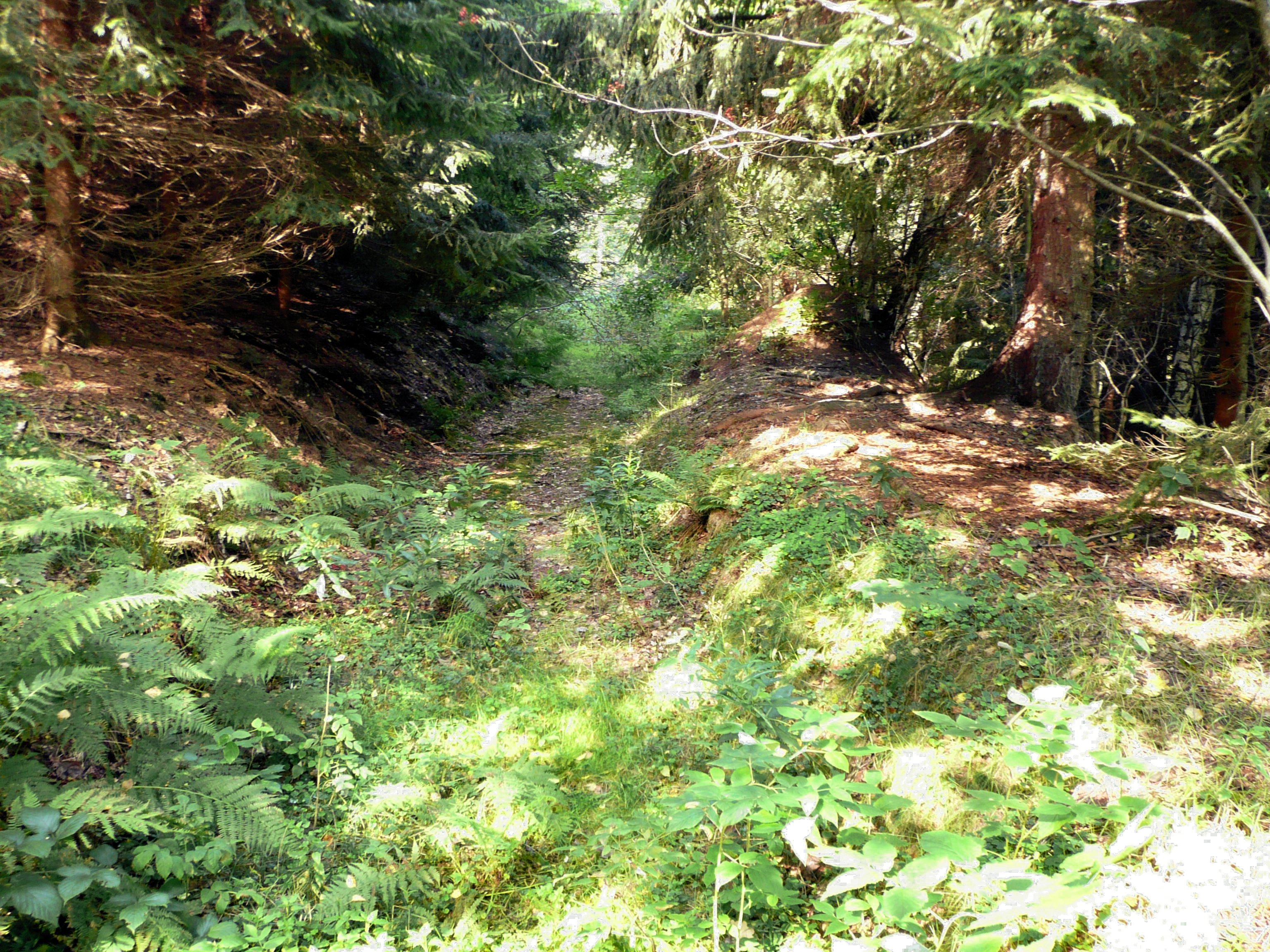 Christbescherunger Bergwerkskanal near Großvoigtsberg, Saxony